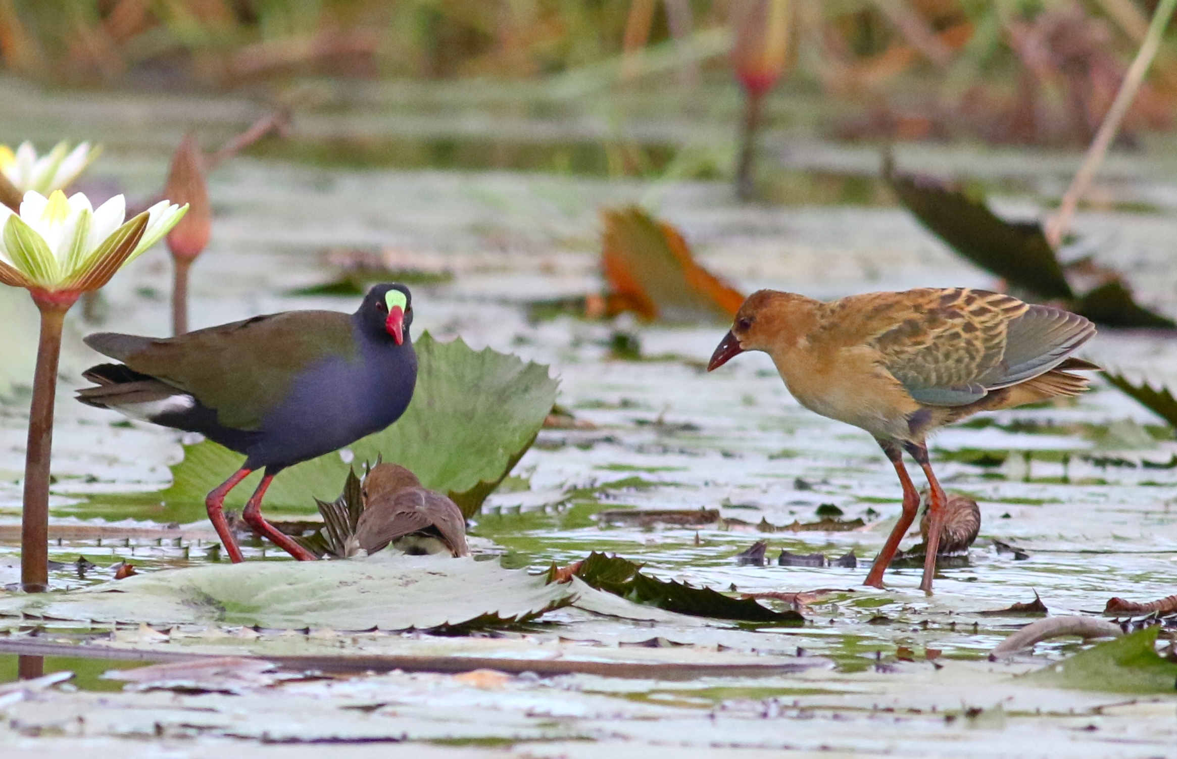 Not a great photo, but I was thrilled to find this among my Chobe photos as I did not think I had managed to get one. Allen's gallinule, Porphyrio alleni, female and immature at Chobe National Park, Botswana.